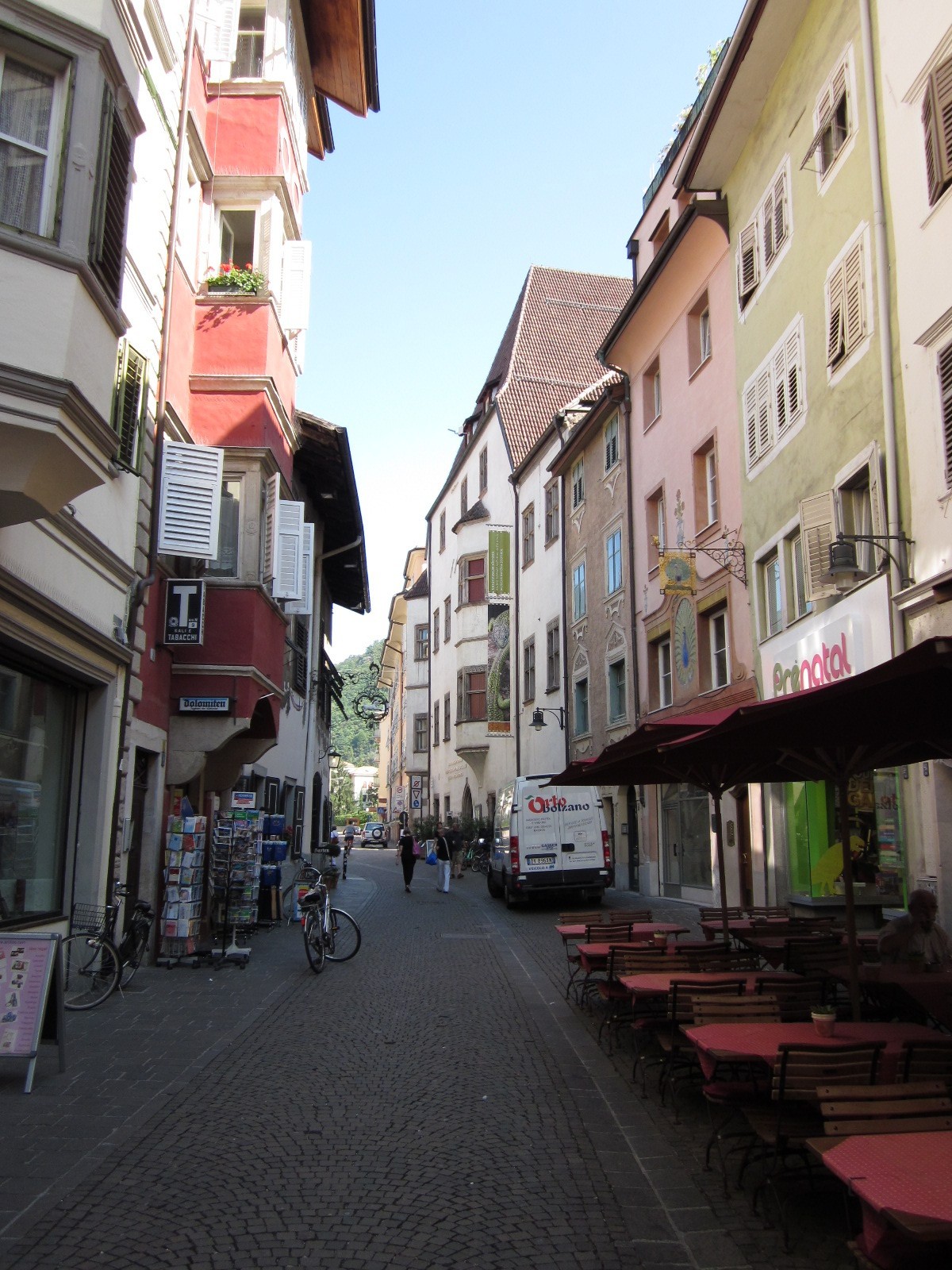 Northern part of Via Bottai in Bolzano-Bozen